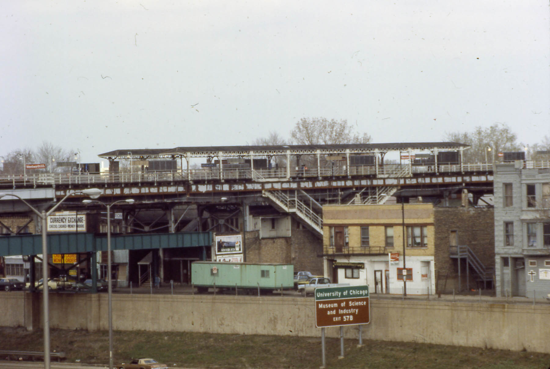 19860406 42 CTA South Side L @ Wentworth Ave.